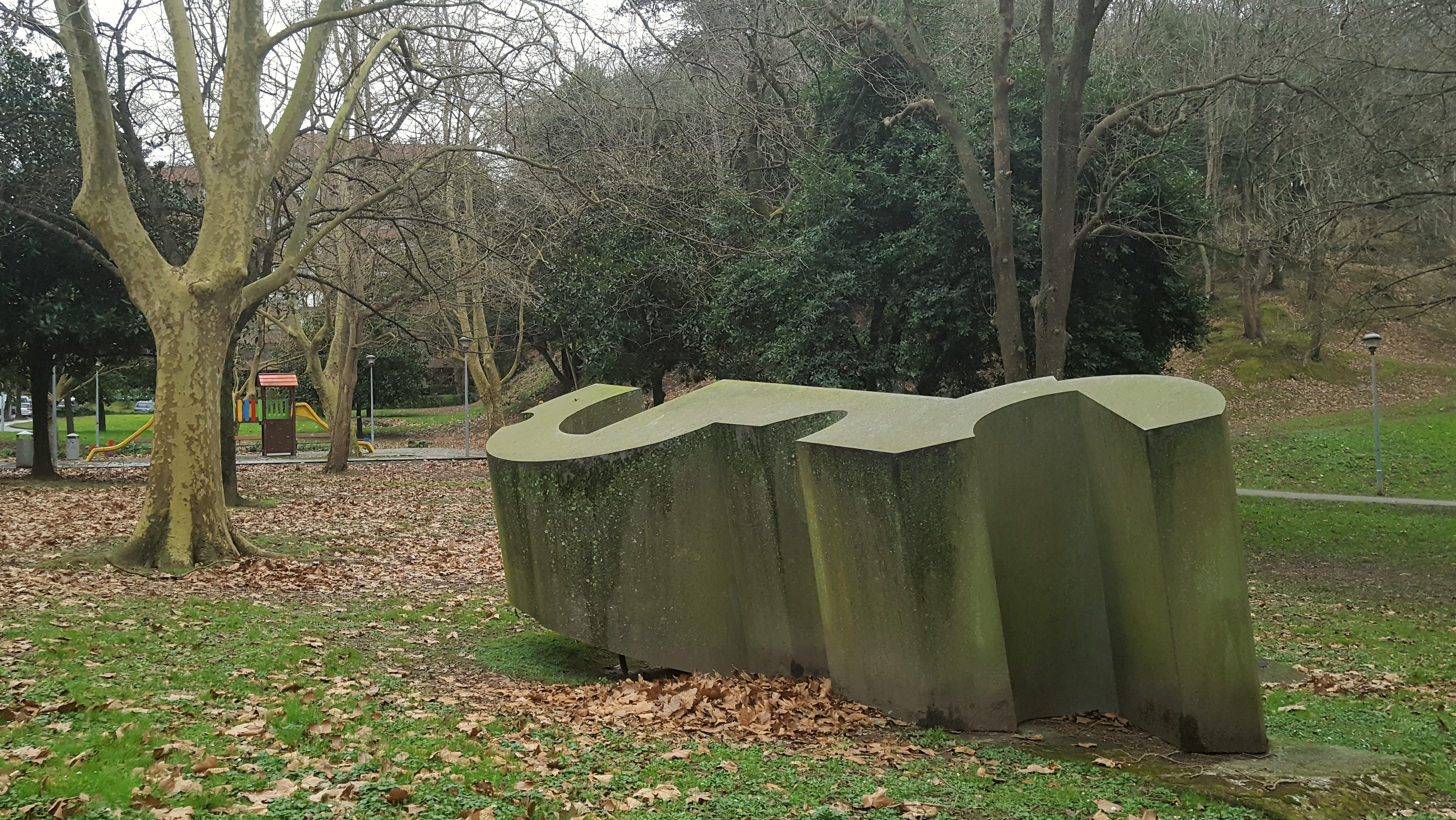 Barojaren Oroimenez sculture, Saint Sebastian, Basque Country